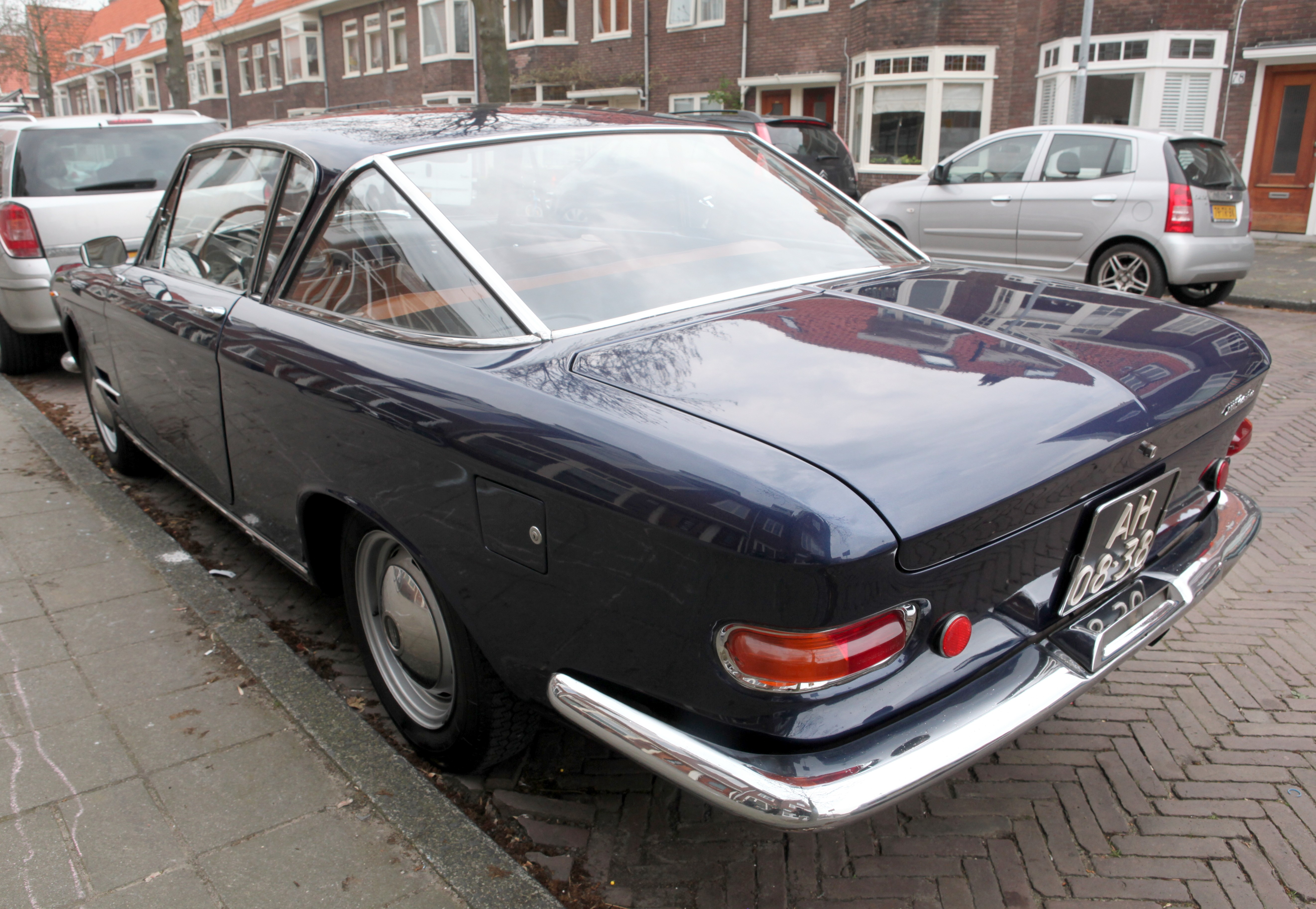 Fiat 2300 S Coupe